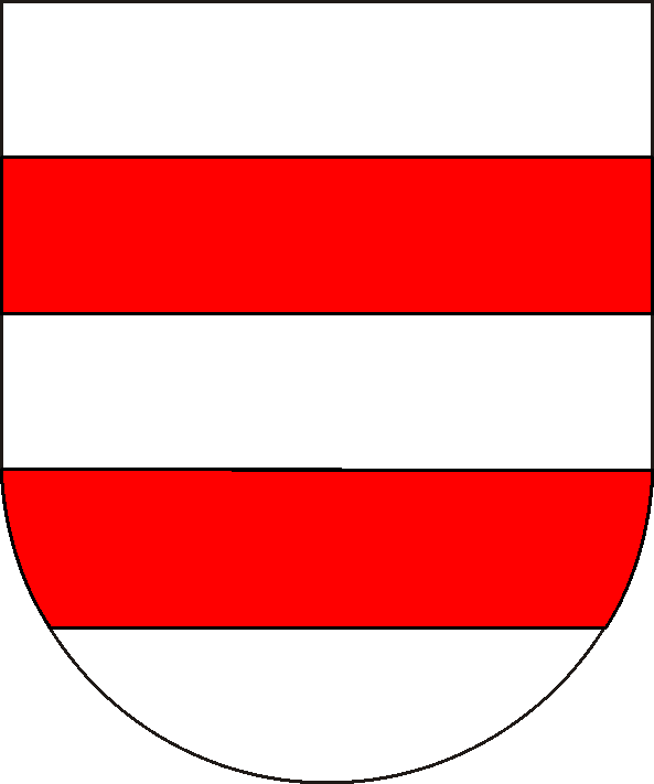 coat of arms of the county of Nieder-Isenburg